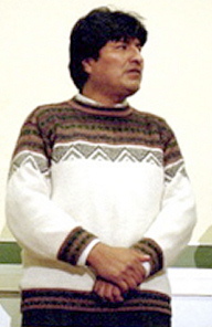 Evo Morales et José Bové in Pau on 2002 during the culturAmérica.